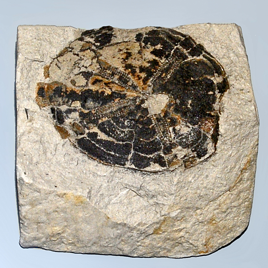 Fossil of Schizaster species from Italy, on display at the Museo Paleontologico Giulio Maini, Ovada